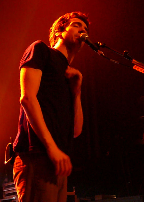 Gary Lightbody, 2006 in Copenhagen/Denmark